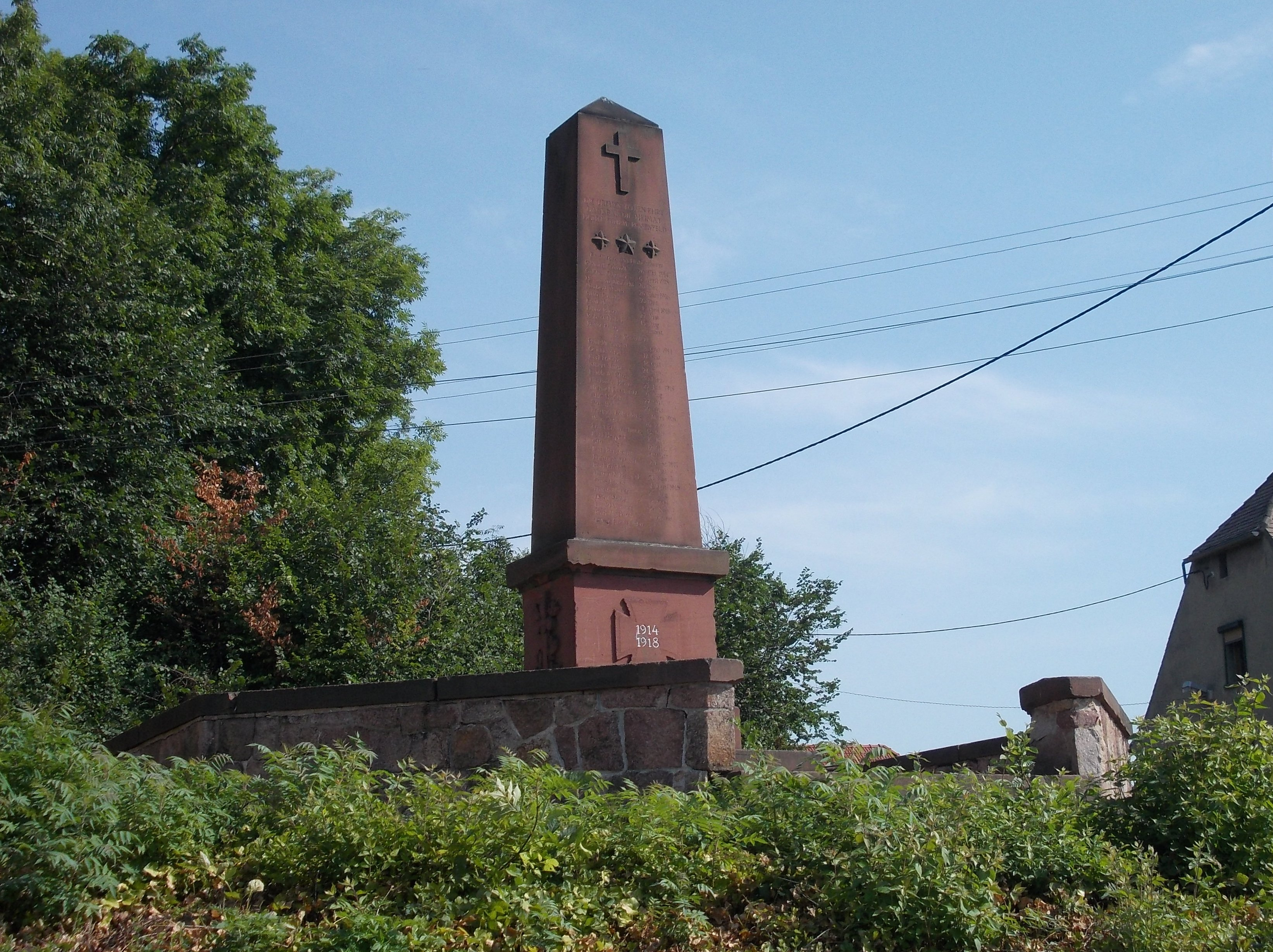 World war I memorial in Hohenthurm (Landsberg, district: Saalekreis, Saxony-Anhalt)